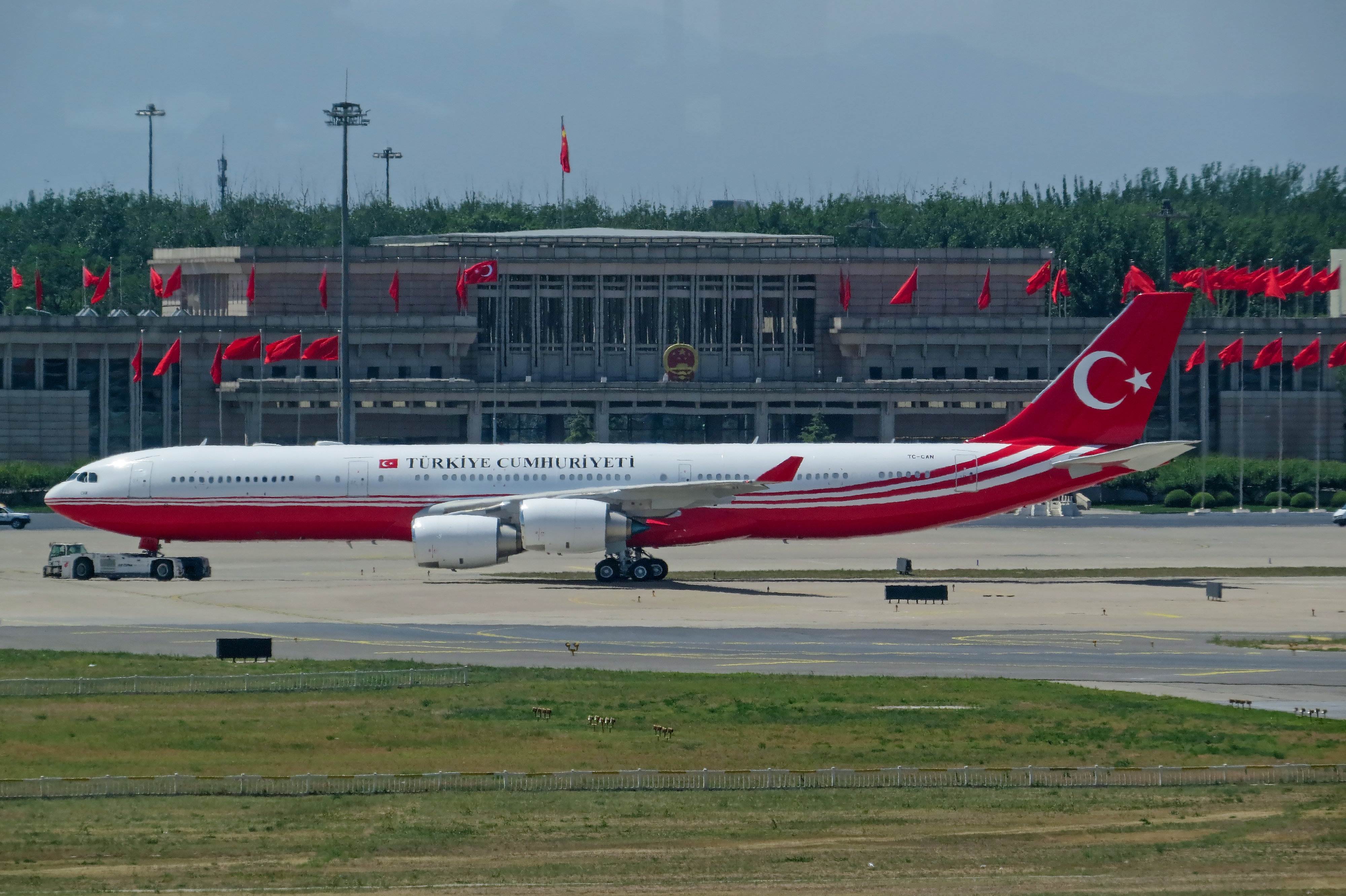 According to CCTV13, Erdoğan came to Beijing by this A345. Now, "der Boss vom Bosporus" has got a new presidential jet!